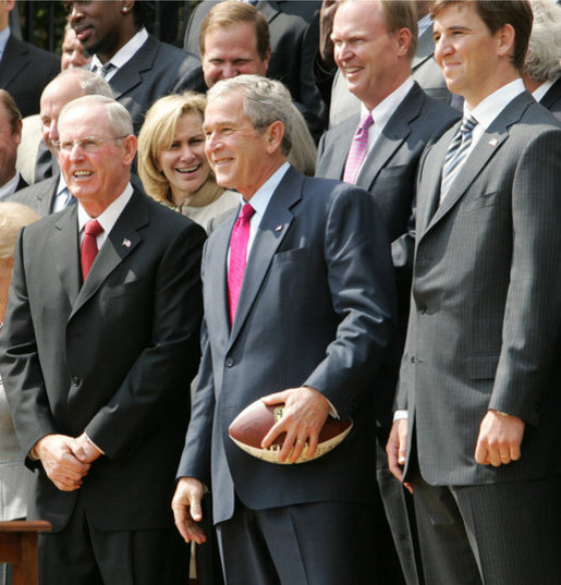 Tom Coughlin, George W. Bush and Eli Manning at the White House on April 30, 2008.